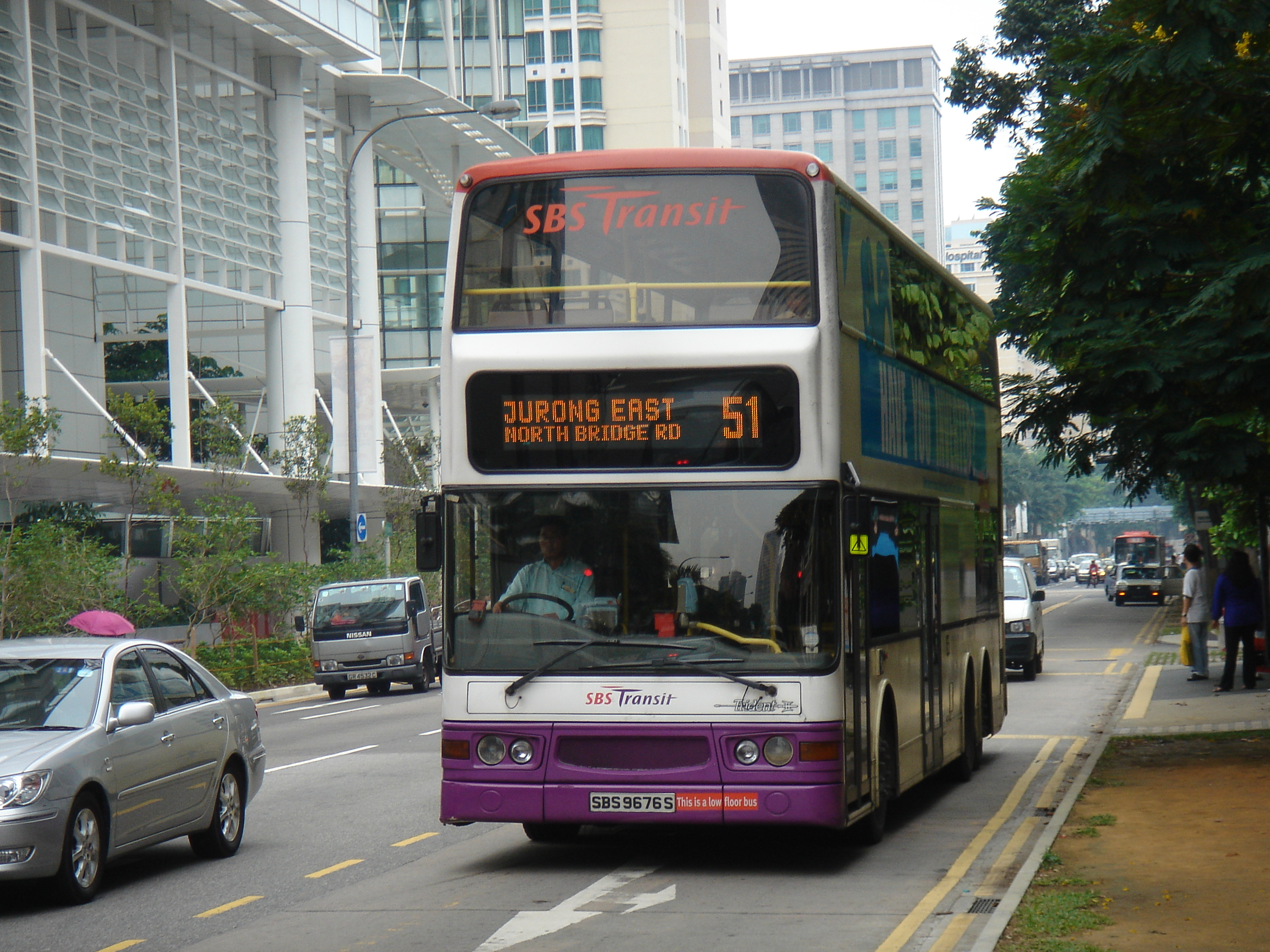 Duple Metsec DM5000 bodywork Dennis Trident 3 (SBS9676S, 12m, built 2000, in use from 2001, SBS Transit), on Service 51 outside the National Library, Singapore.